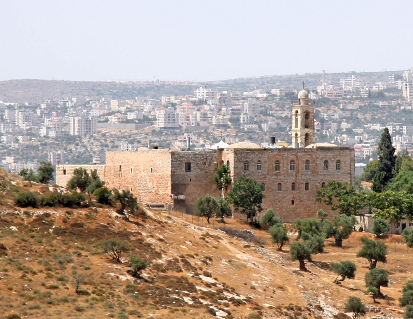 Mar Elias monestery